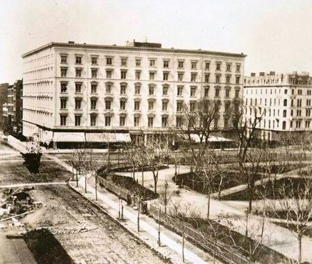 Photograph of the Fifth Avenue Hotel